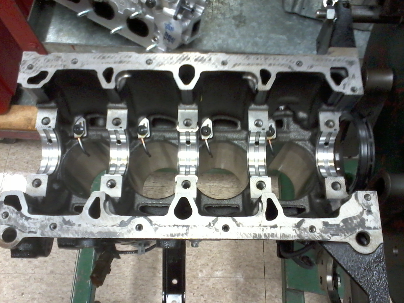 GM Family 1 engine 18XER engine block